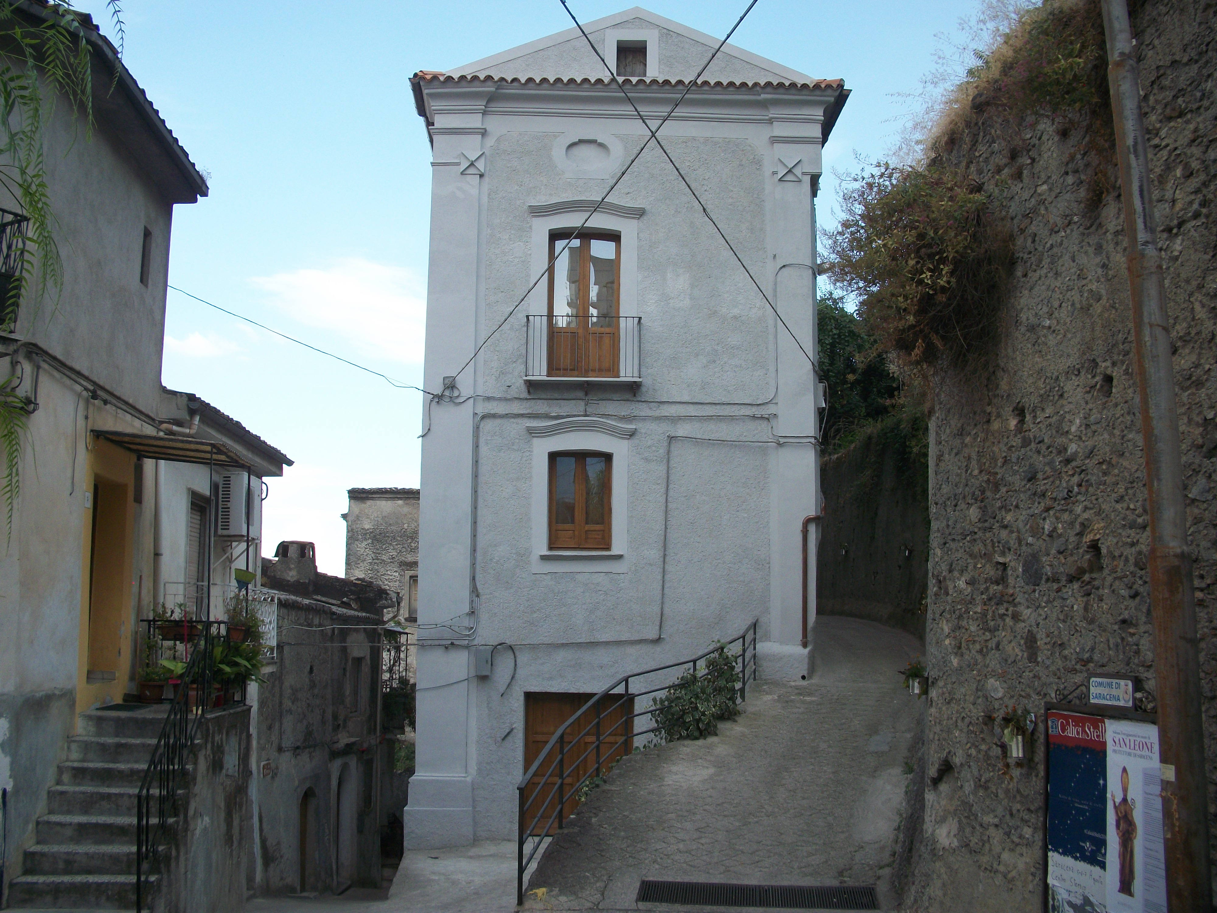 Saracena, Palazzo Mastromarchi (sec. XVI-XVIII), centro storico